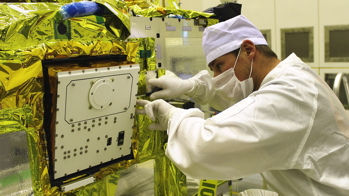 MASCOT lander mounted on the Hayabusa 2.